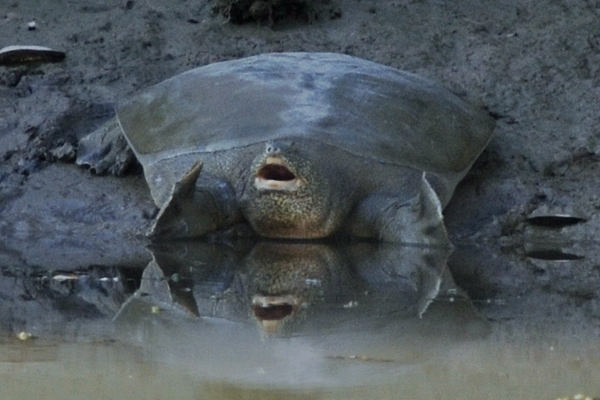 Euphrates Softshell Turtle near Qoruxçî, in Turkish Kurdistan